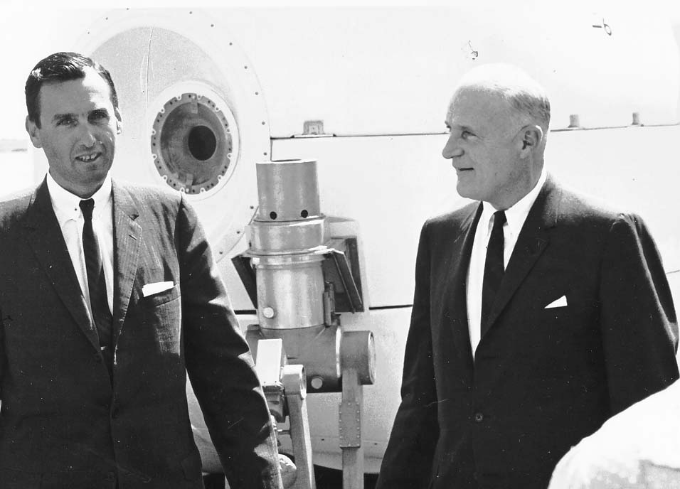 The Deep Submergence Research Vehicle Alvin was commissioned on June 5, 1964. Attendants included Mr. George Scharffenberger left, senior vice president of Litton Industries which built Alvin, and the Honorable James H. Wakelin, Jr. right, Assistant Secretary of the Navy Research Development.